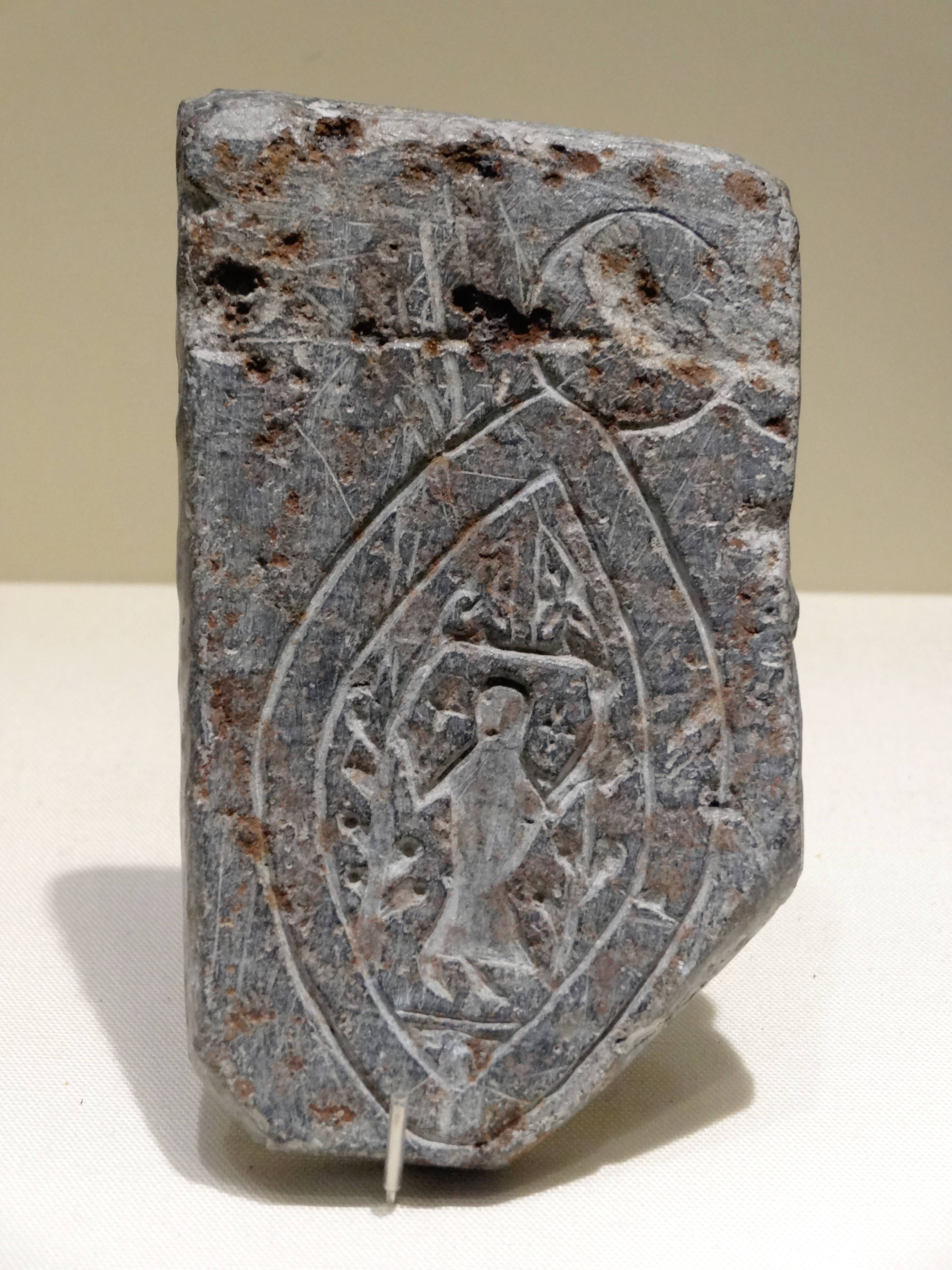 A stone mould for casting pilgrim's badges. 15th century. Found in St Mary's Priory, Devenish, County Fermenagh. Displayed in the National Museum of Ireland Archaeology in Dublin, on loan from the Ulster Museum / Historic Monuments and Buildings.